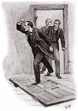 Sherlock Holmes in "The Adventure of the Stockbroker's Clerk", which appeared in The Strand Magazine in March, 1893. Original caption was "WE FOUND OURSELVES IN THE INNER ROOM."